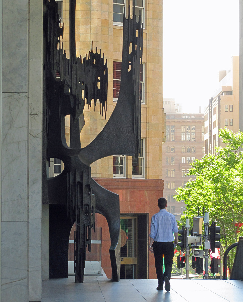 Abstract sculpture by Margel Hinder, 1964 in Sydney/Australia